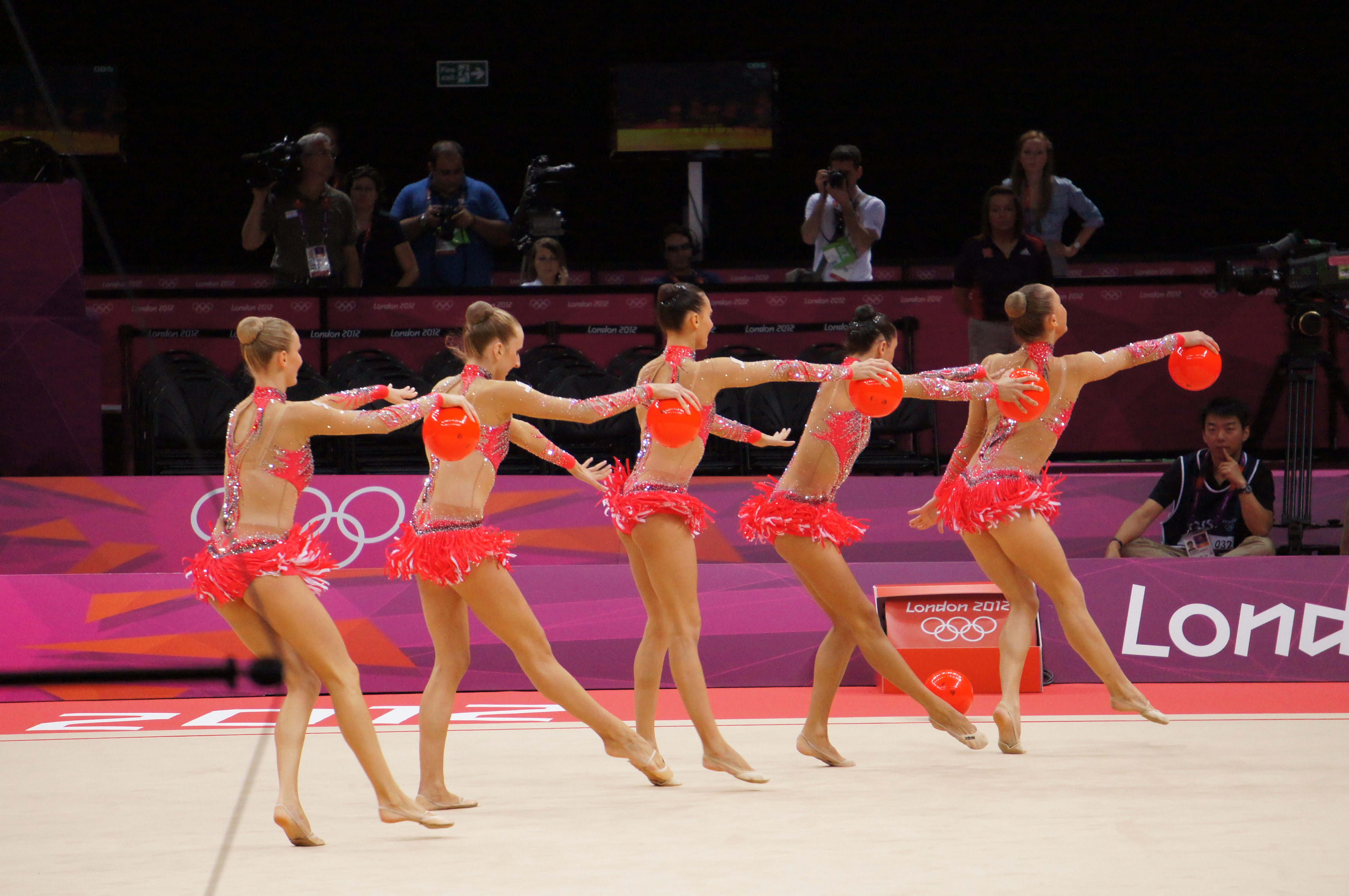 Rhythmic Gymnastics at the Olympic Games in London 2012.